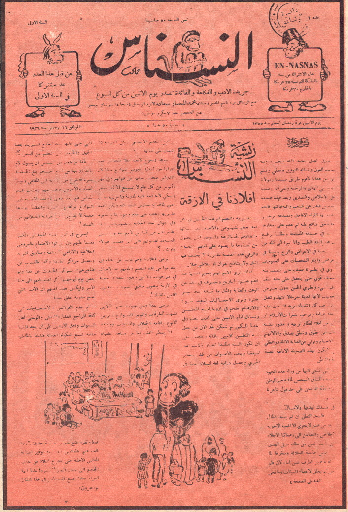 First page of the first edition of the Ennasnes newspaper of Tunisia.